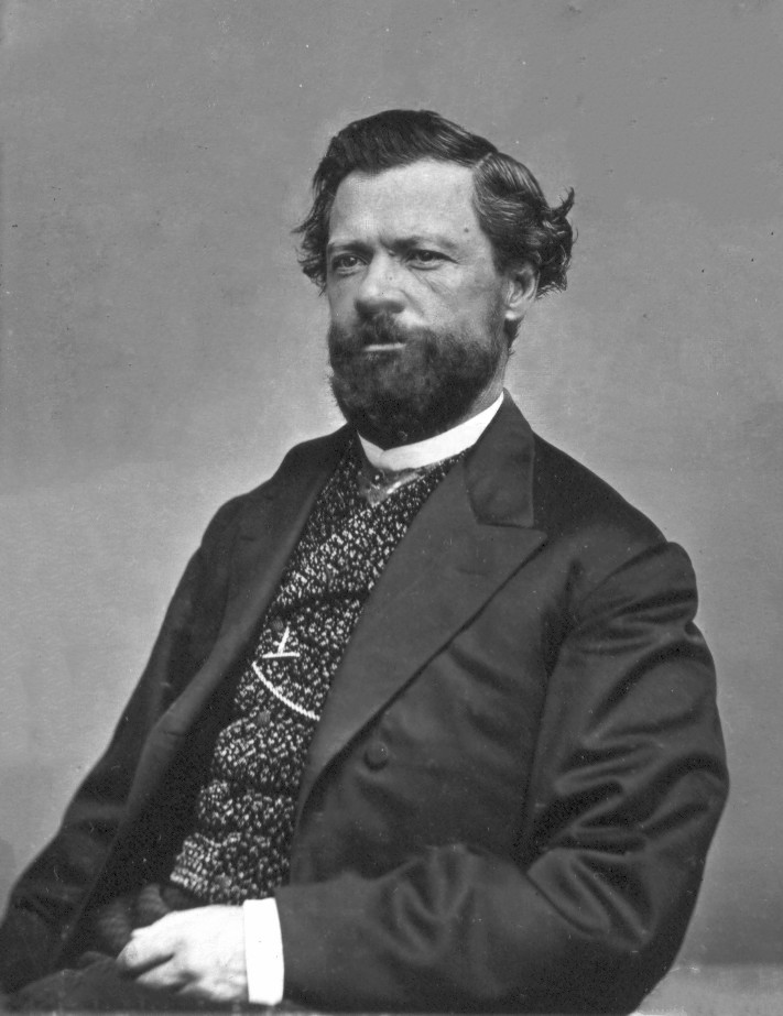 Charles D. Poston, Delegate to the U.S. House of Representatives from Arizona Territory (1864-1865) Cropped from top left quadrant of original image.